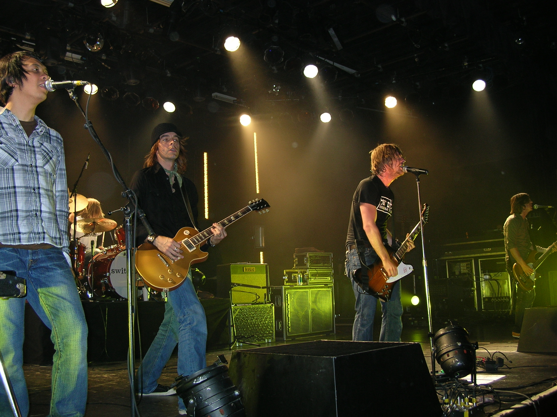 Image (Source) taken by flickr user Stewart Yu, licensed under a creative commons attribution 2.0 license